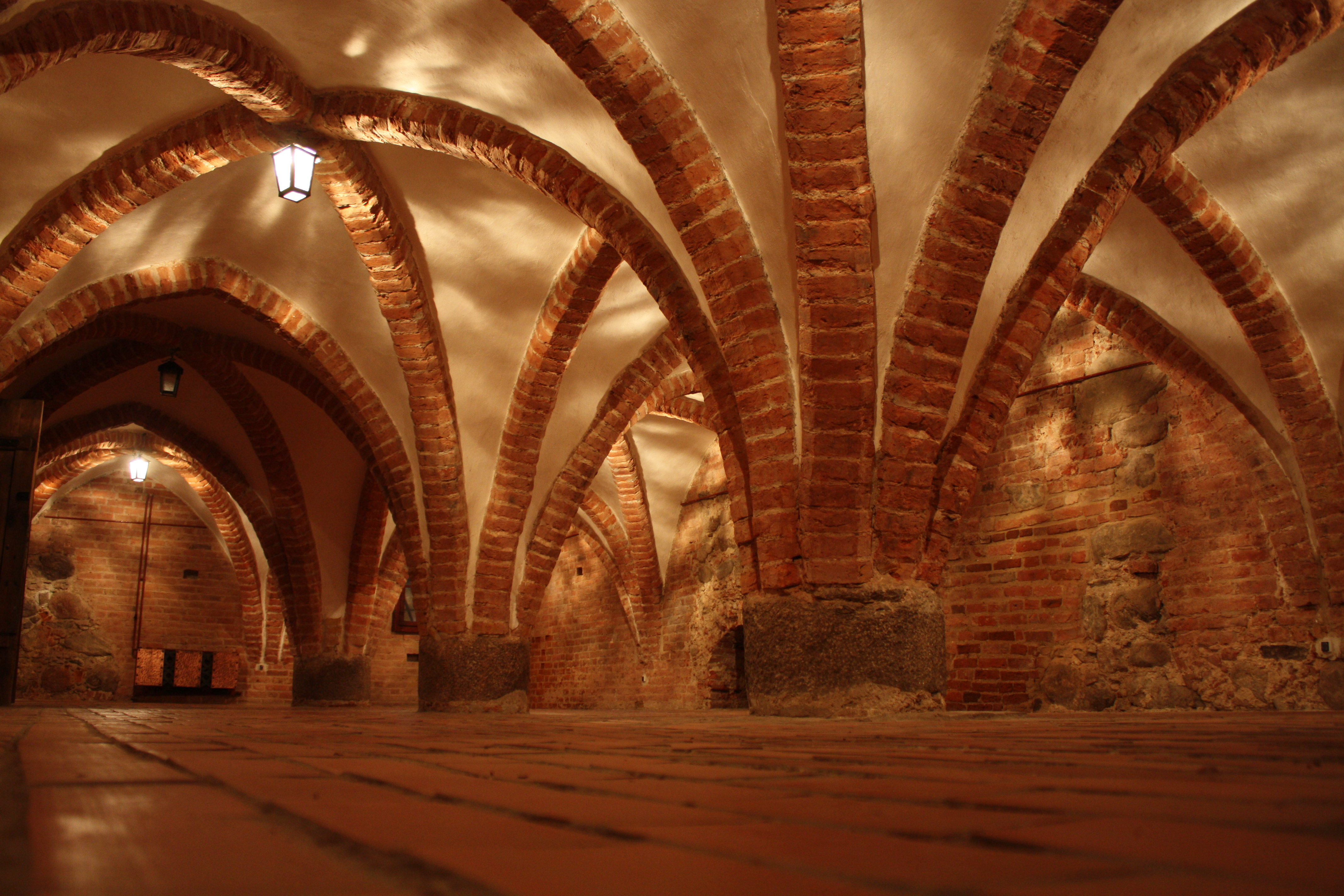 This photo of Warmian-Masurian Voivodeship was taken during Wikiexpedition 2012 set up by Wikimedia Polska Association. You can see all photographs in category Wikiekspedycja 2012. The making of this document was supported by Wikimedia Polska.